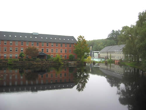 Shawsheen River mill pond and mill in Ballardvale village, located in Andover.